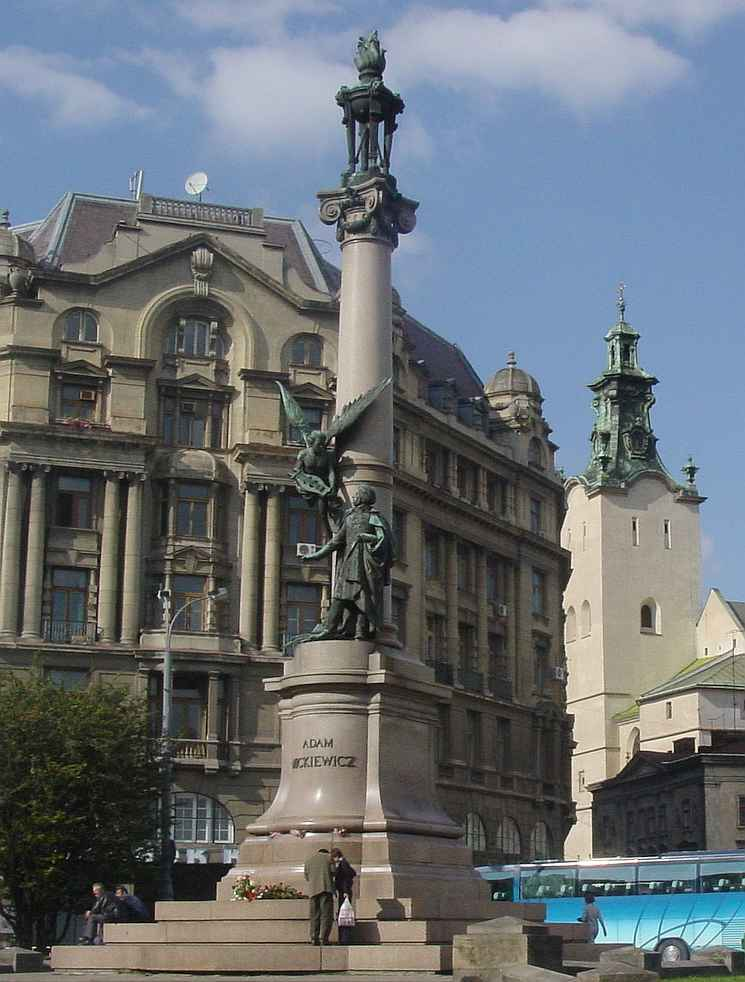 Monument to Polish poet Adam Mickiewicz in Lwów (Lviv in Ukraine)